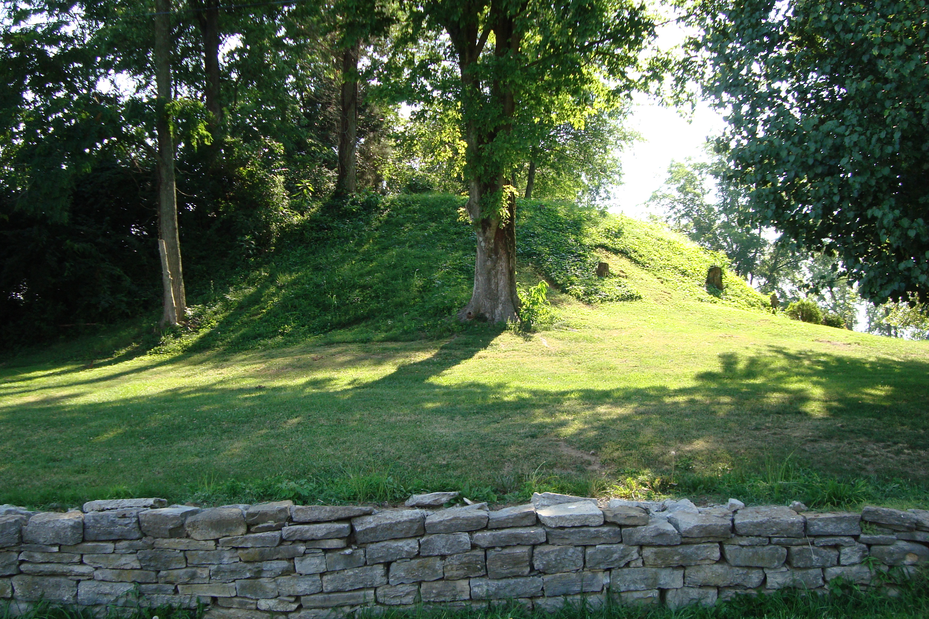 Earthwork attributed to the Adena Culture located at Round Hill, Kentucky, USA.